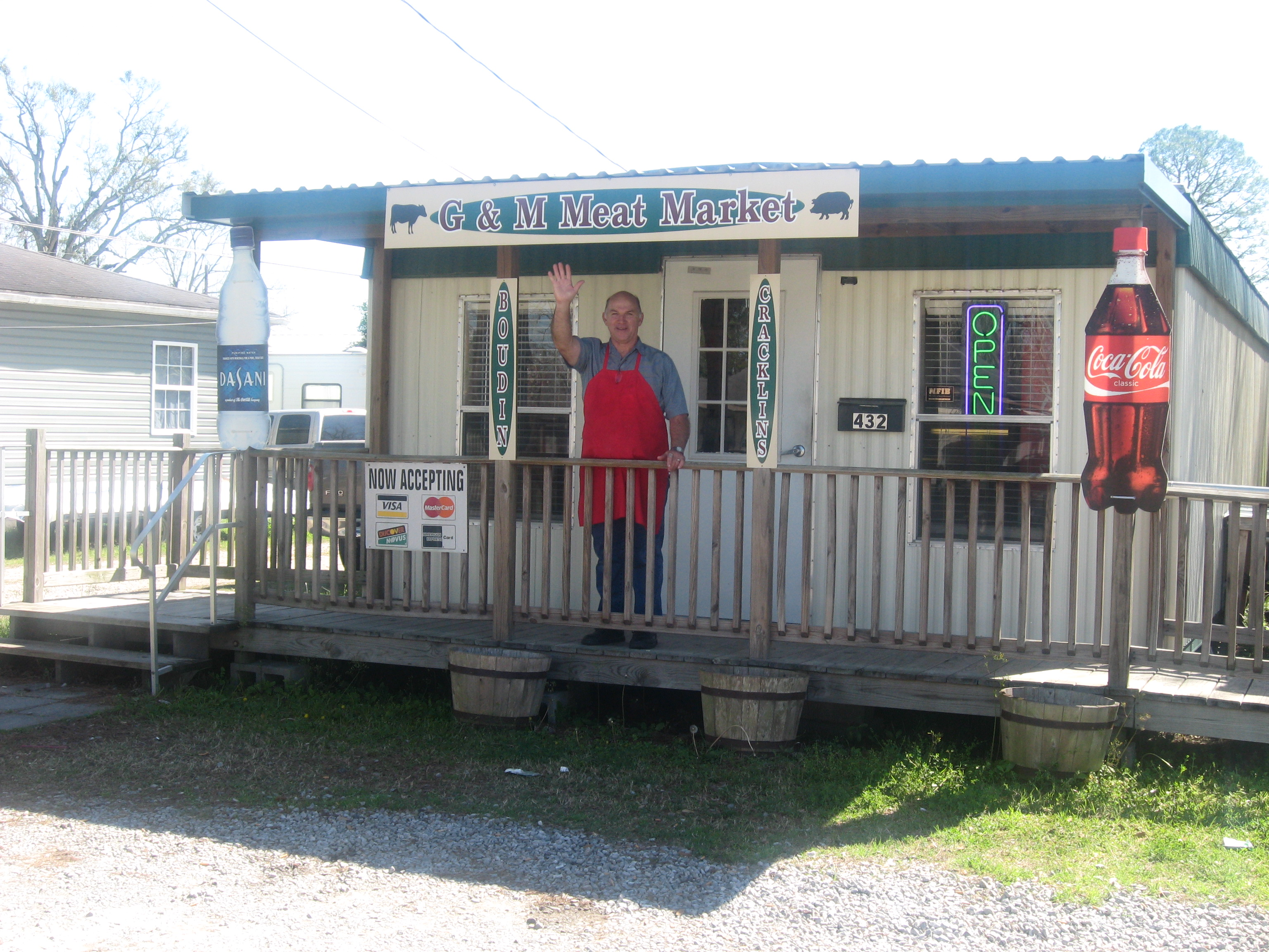 G&M Meat Market. Jeanerette, LA. Photos from fieldwork conducted by SFA oral historian Mary Beth Lasseter for a project documenting boudin, February 2009.